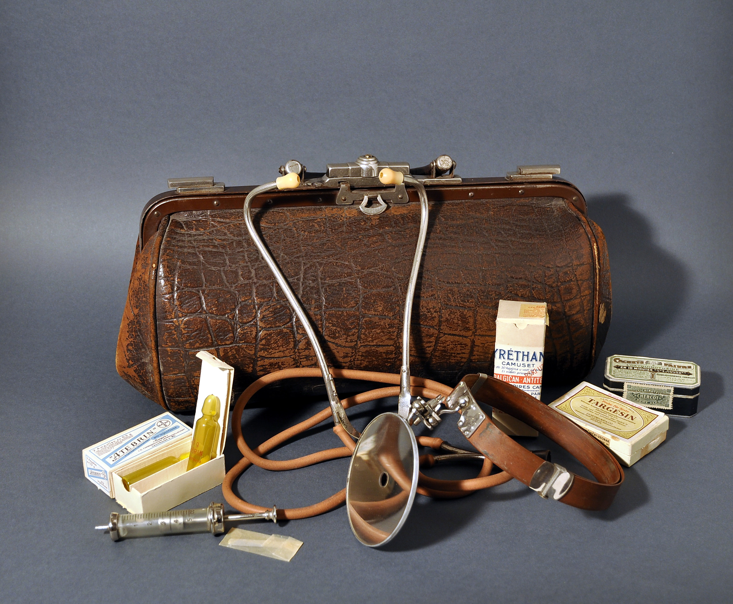 Medical bag with accessories. It is located in Museum of Science and Technology Belgrade.